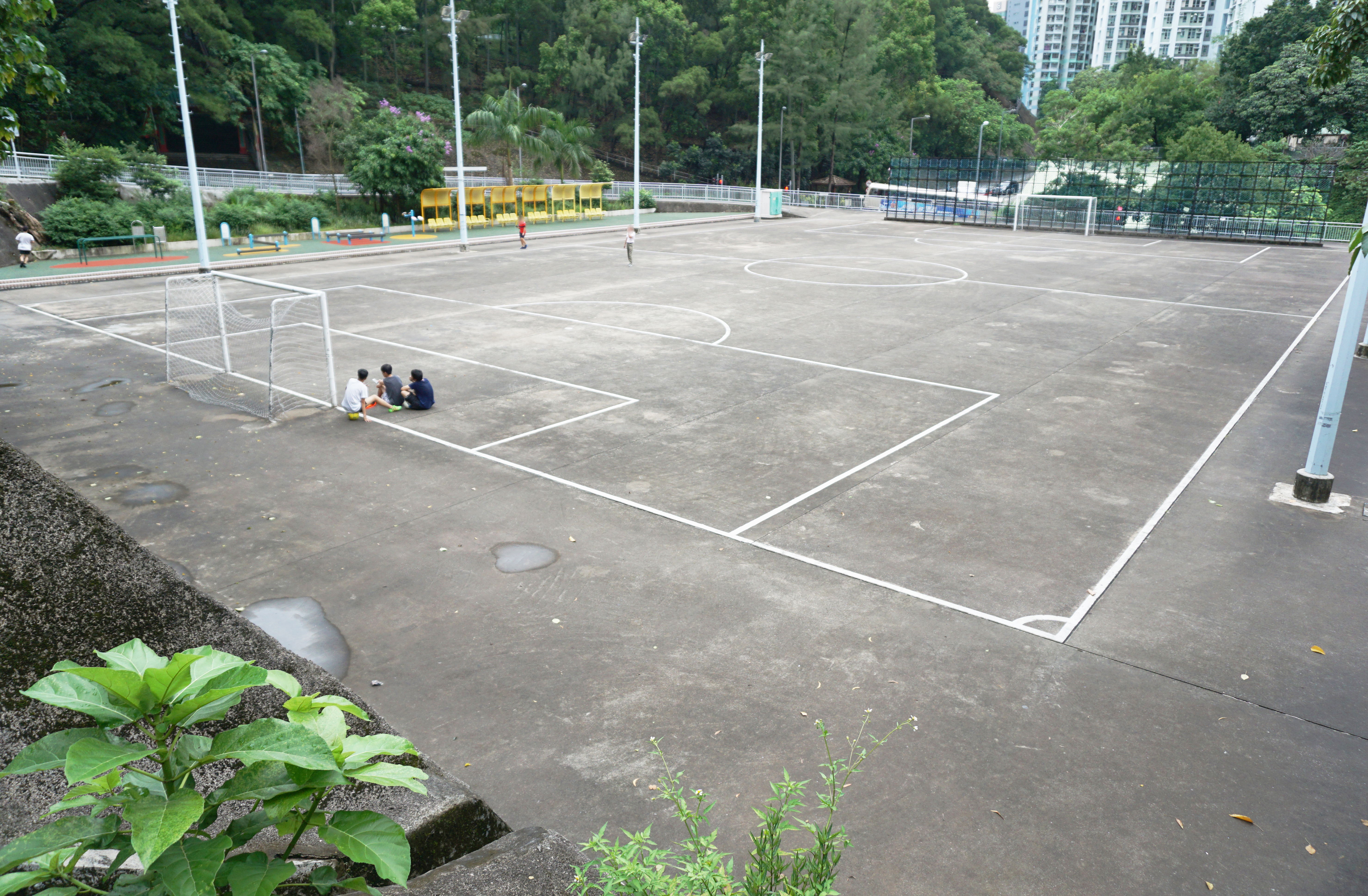 Tai Wo Hau Estate in Tai Wo Hau, Hong Kong.